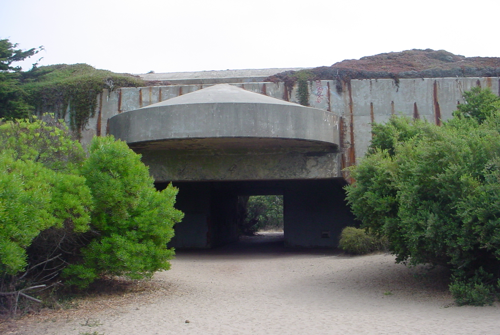 Gun Emplacement #1 at Battery Davis, Fort Funston, San Francisco, CA, USA